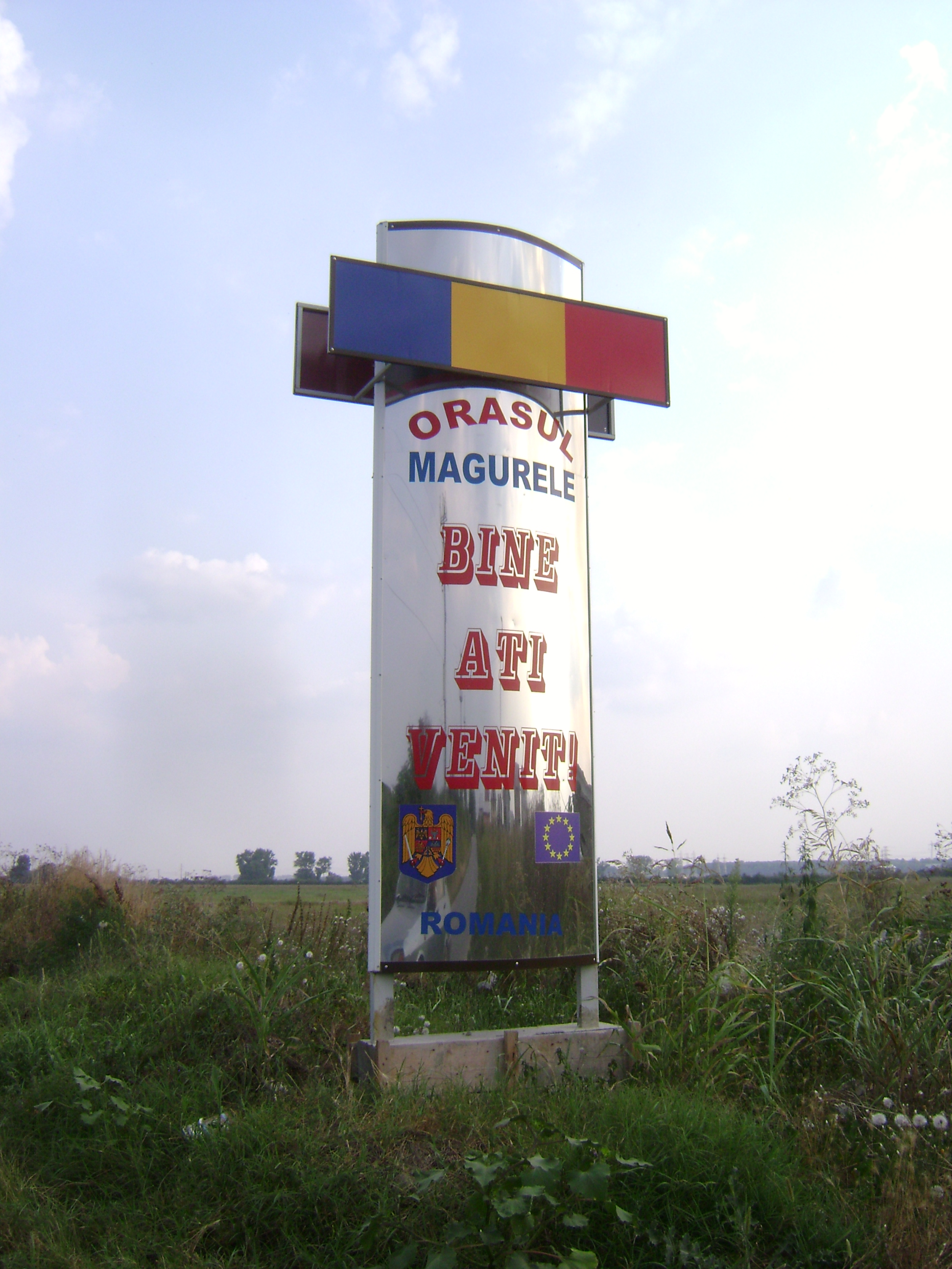 Welcome sign at the entry of Măgurele Town, Romania